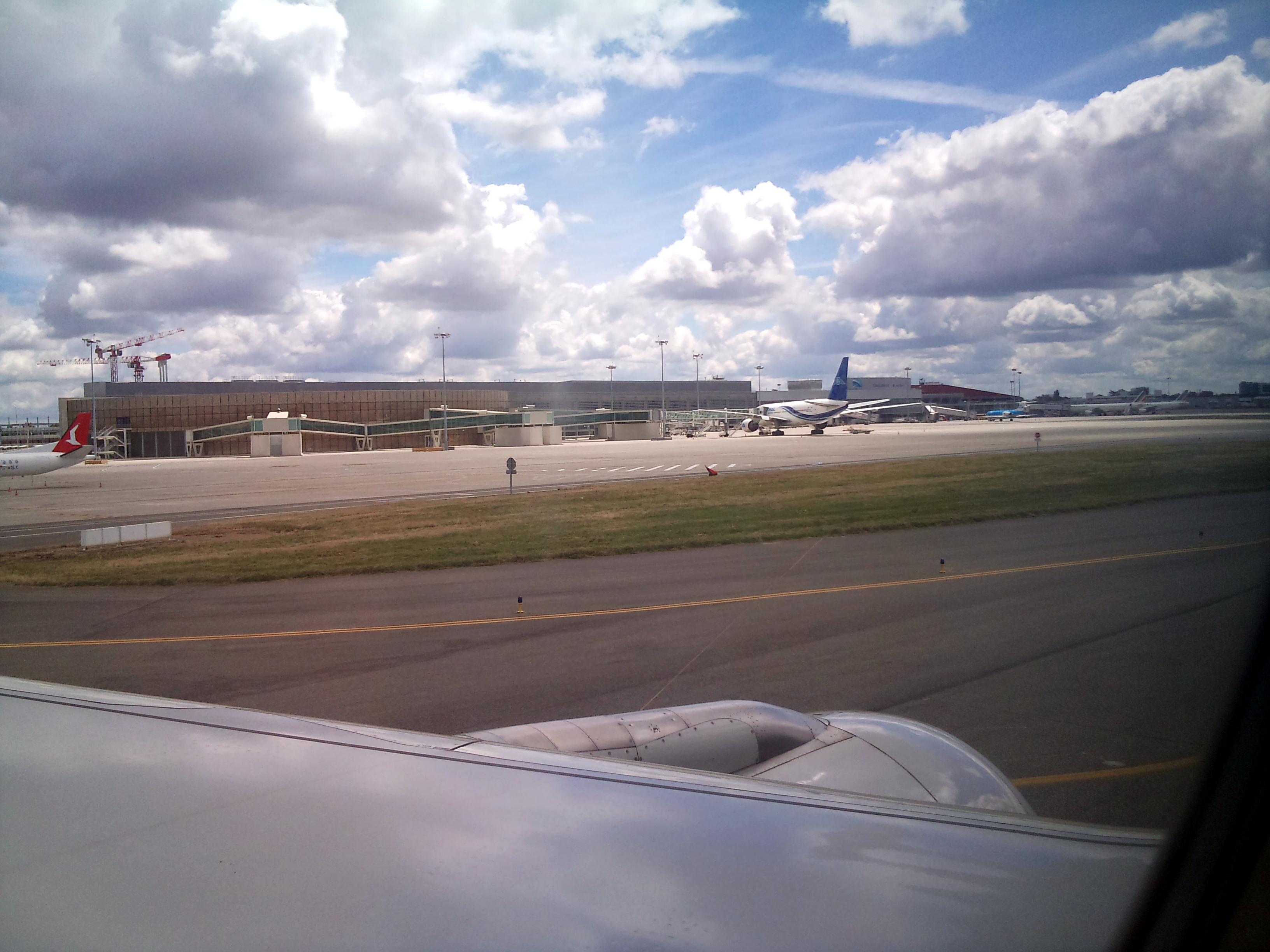 New Hall D of Toulouse-Blagnac airport from the taxiway.